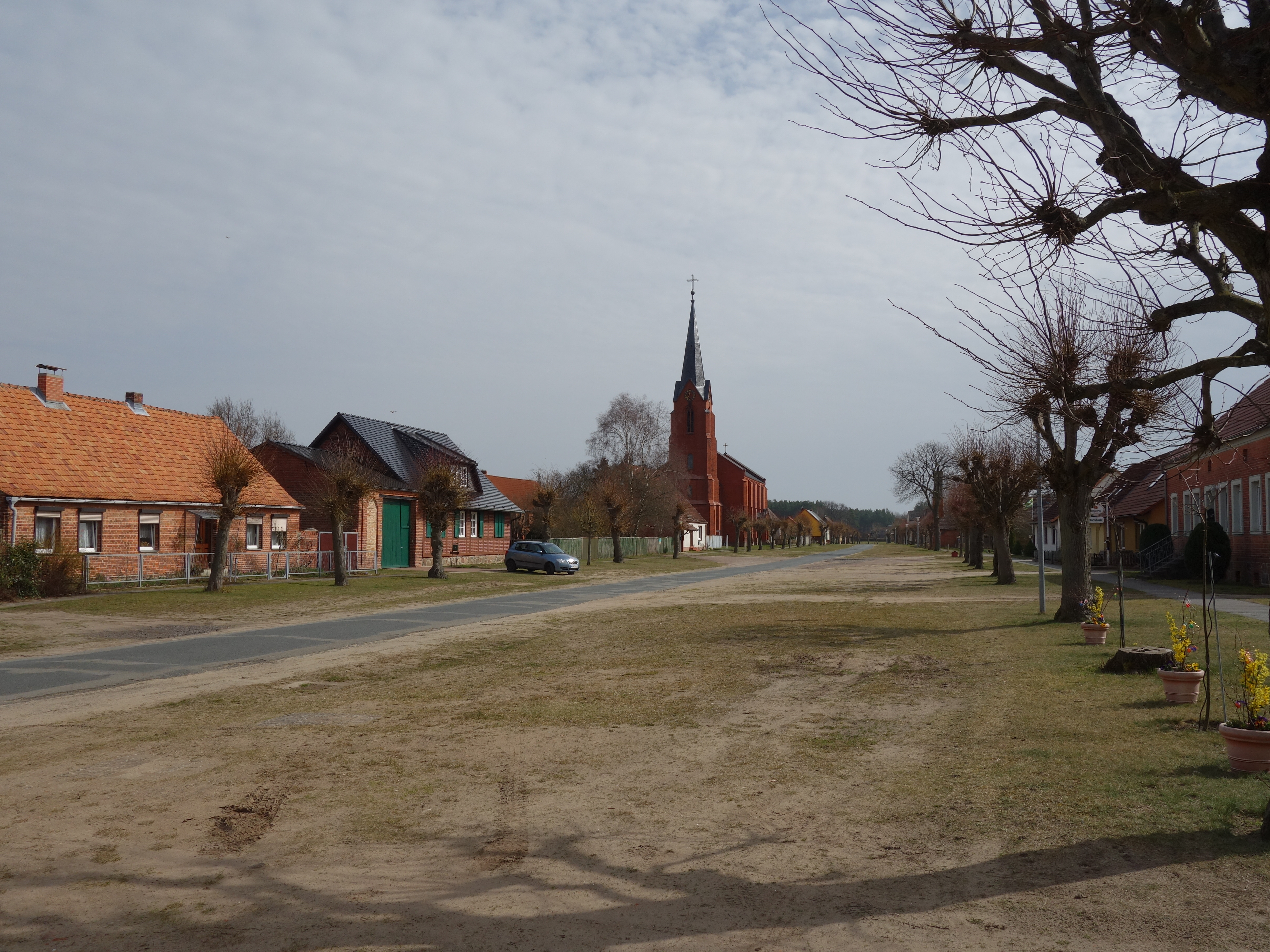 Main Street in Gadow, Wittstock municipality, Ostprignitz-Ruppin district, Brandenburg state, Germany